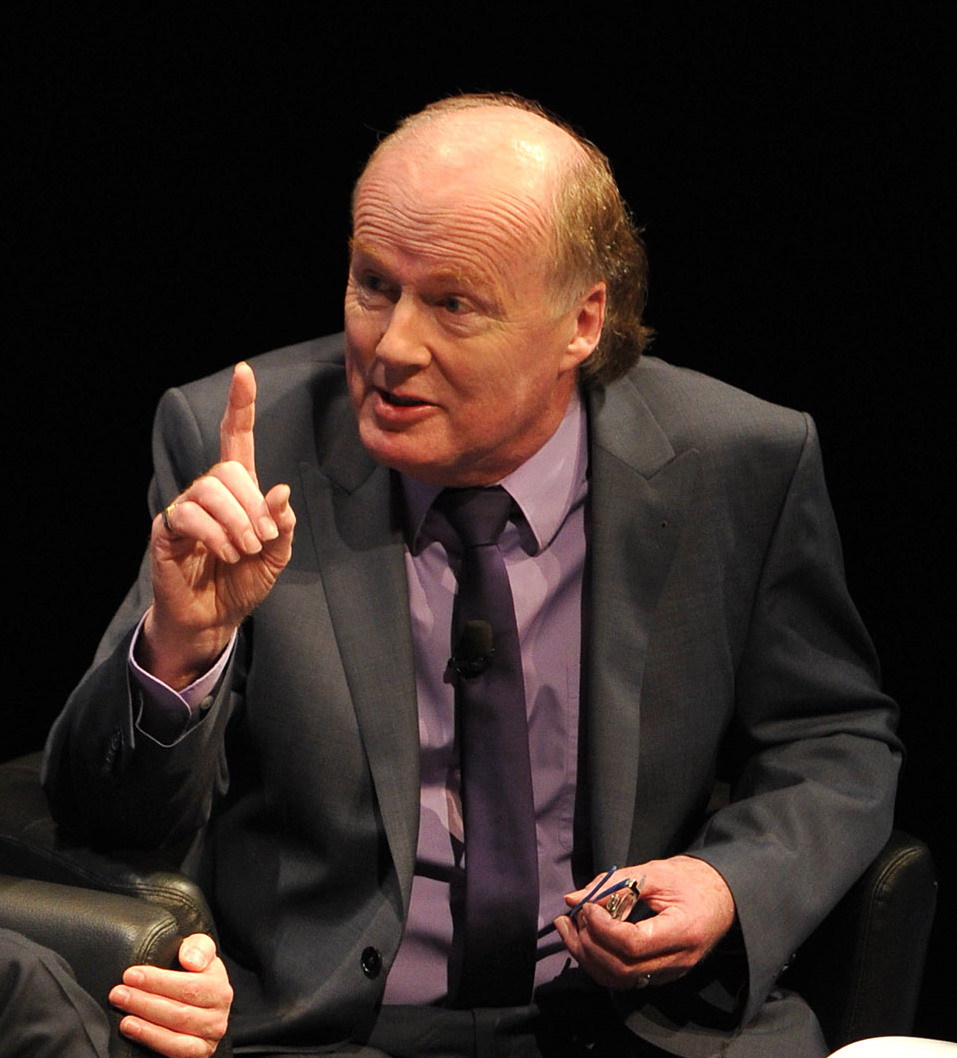 Broadcaster David Davies at the 'Question of Sport' session at the Nations & Regions Media Conference, organised by the University of Salford, at The Lowry 13 March 2012.